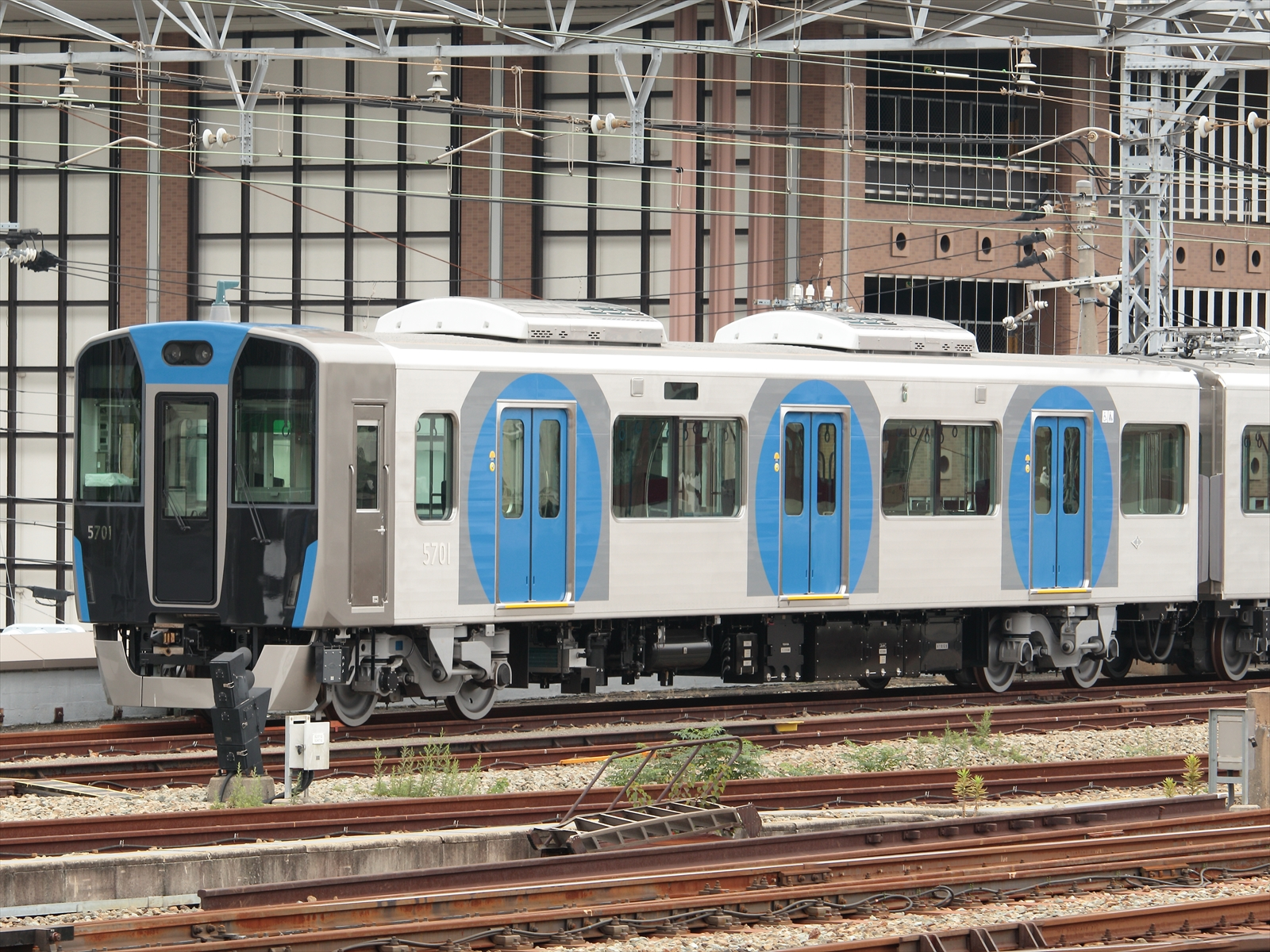 Hanshin Electric Railway 5700 series EMU set 5701 next to Amagasaki Station